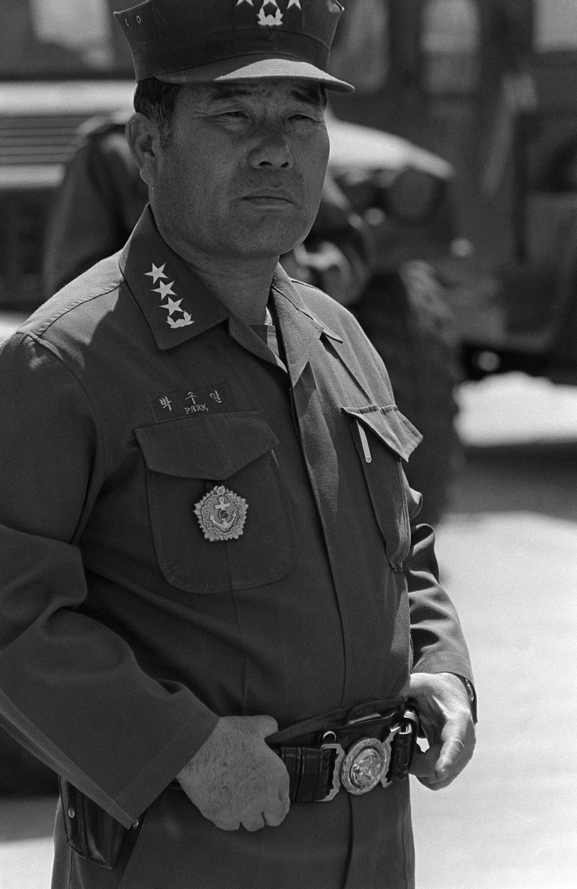 Lieutenant General (LGEN) Park Koo II, second vice chief of naval operations for Marines, South Korea, watches offloading procedures during the joint US/South Korean Exercise TEAM SPIRIT 87